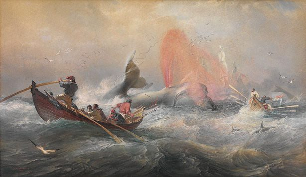 Whalers off Twofold Bay, New South Wales (1867, watercolour, 86.3 x 147.7 cm) by Oswald Brierly (1817–1894).